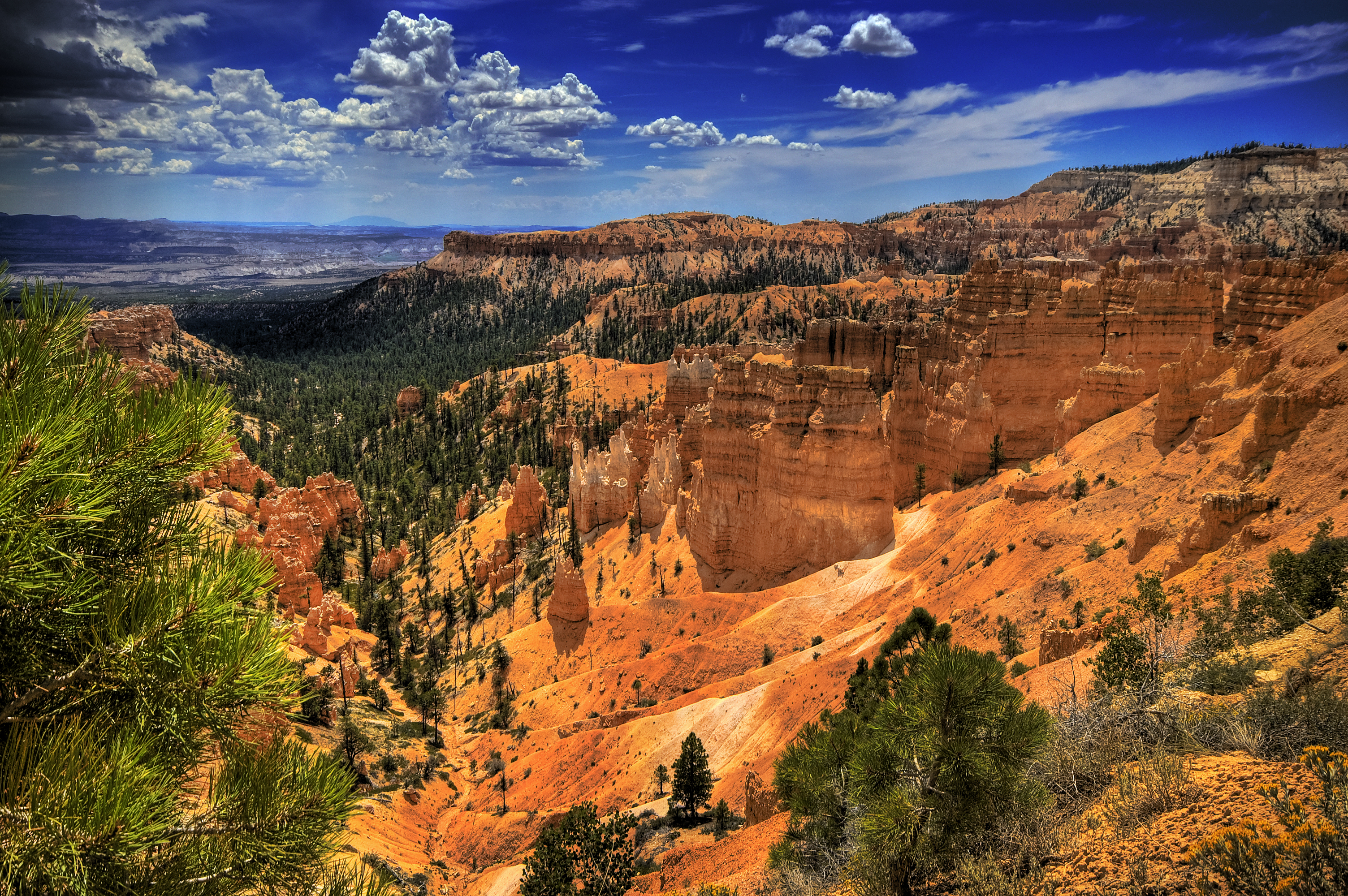 Bryce Canyon National Park, Utah : The colors...